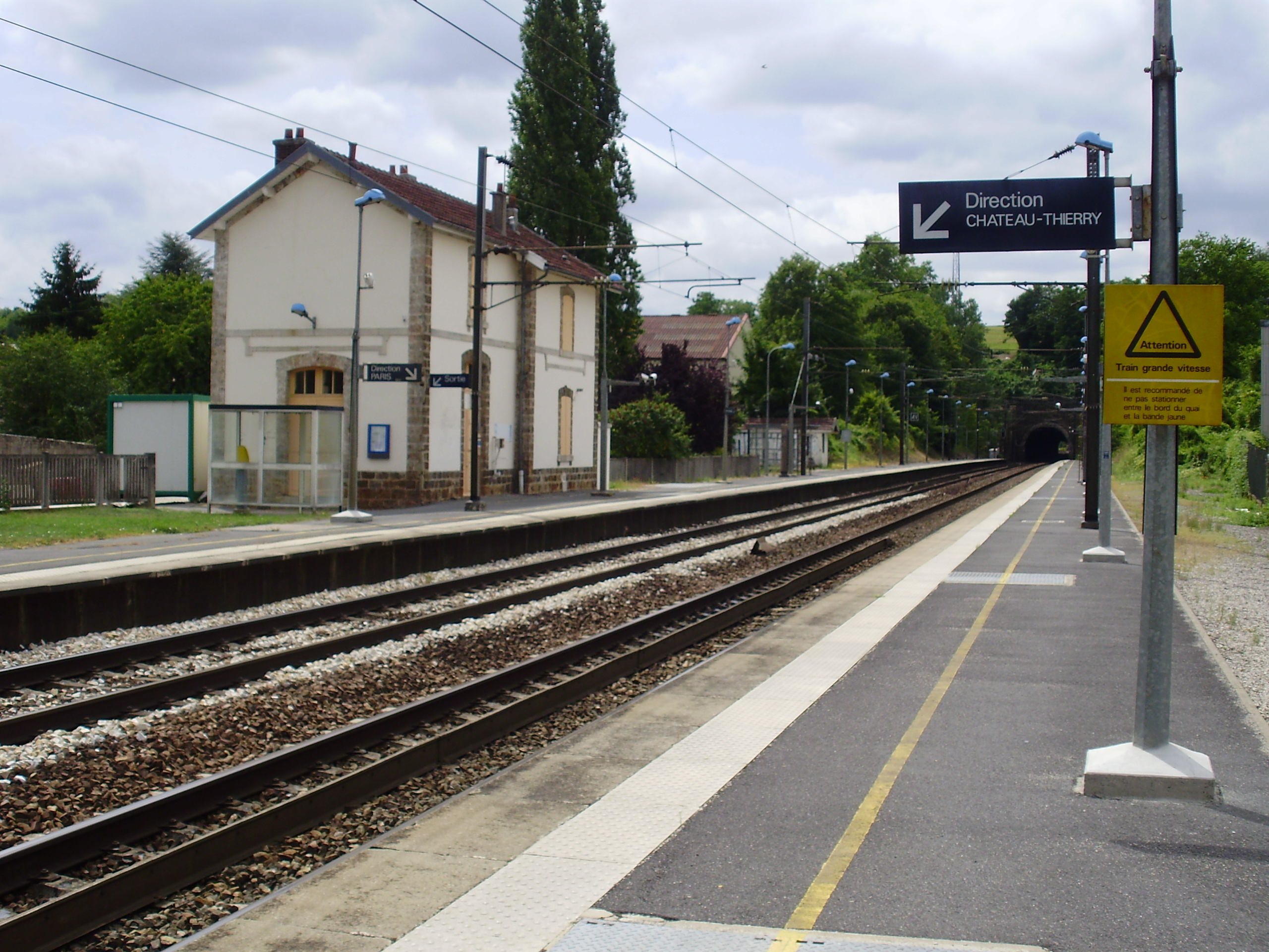 Chézy-sur-Marne station, Aisne, France, seen from the platform to Château-Thierry